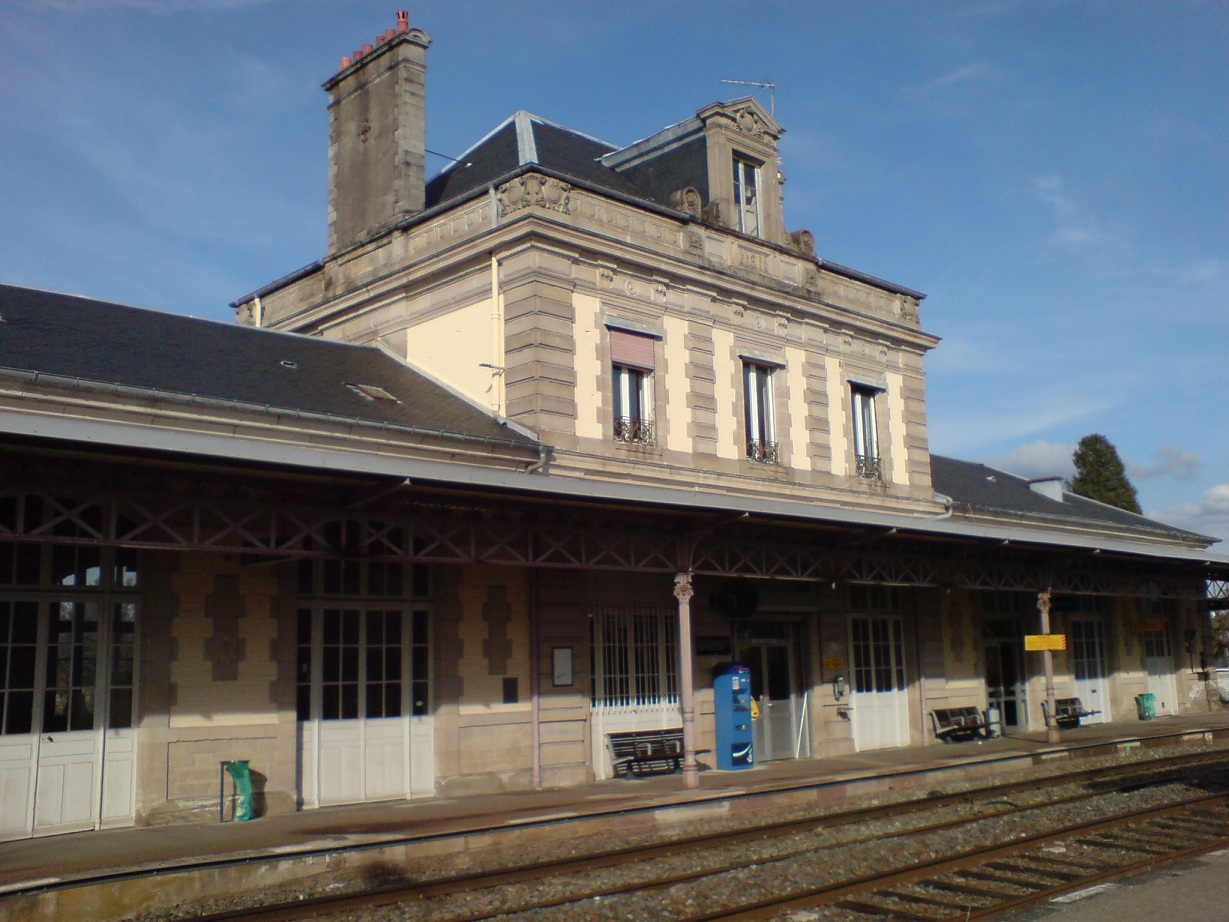 This is the Luxeuil's railway station sceen from the second pavement.